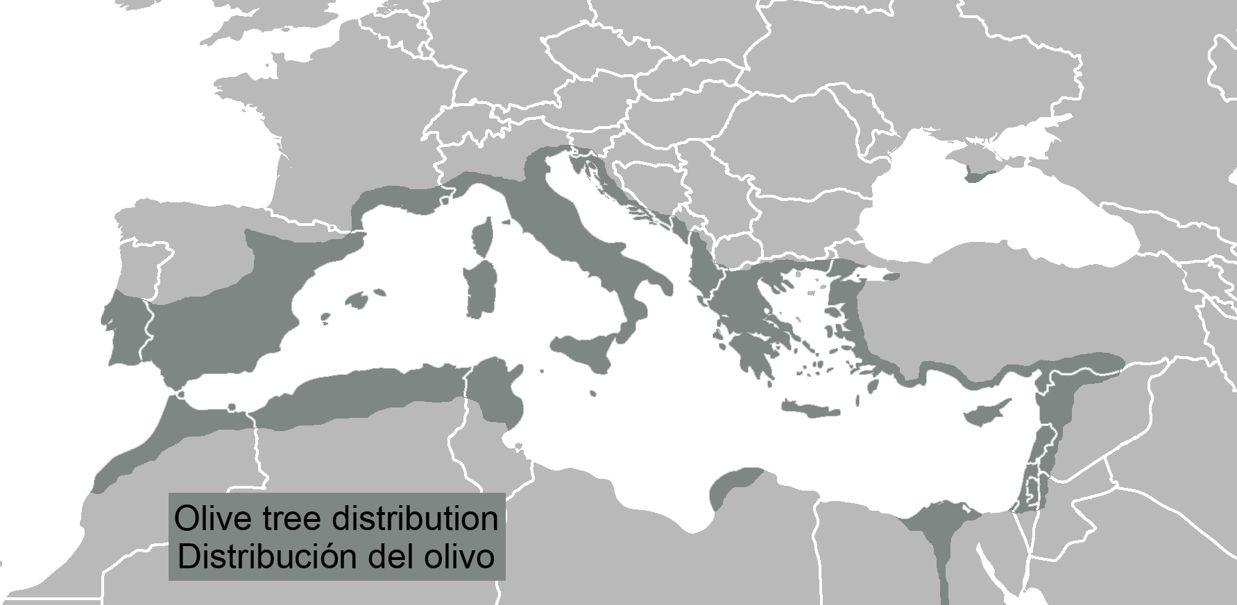 Olive tree distribution